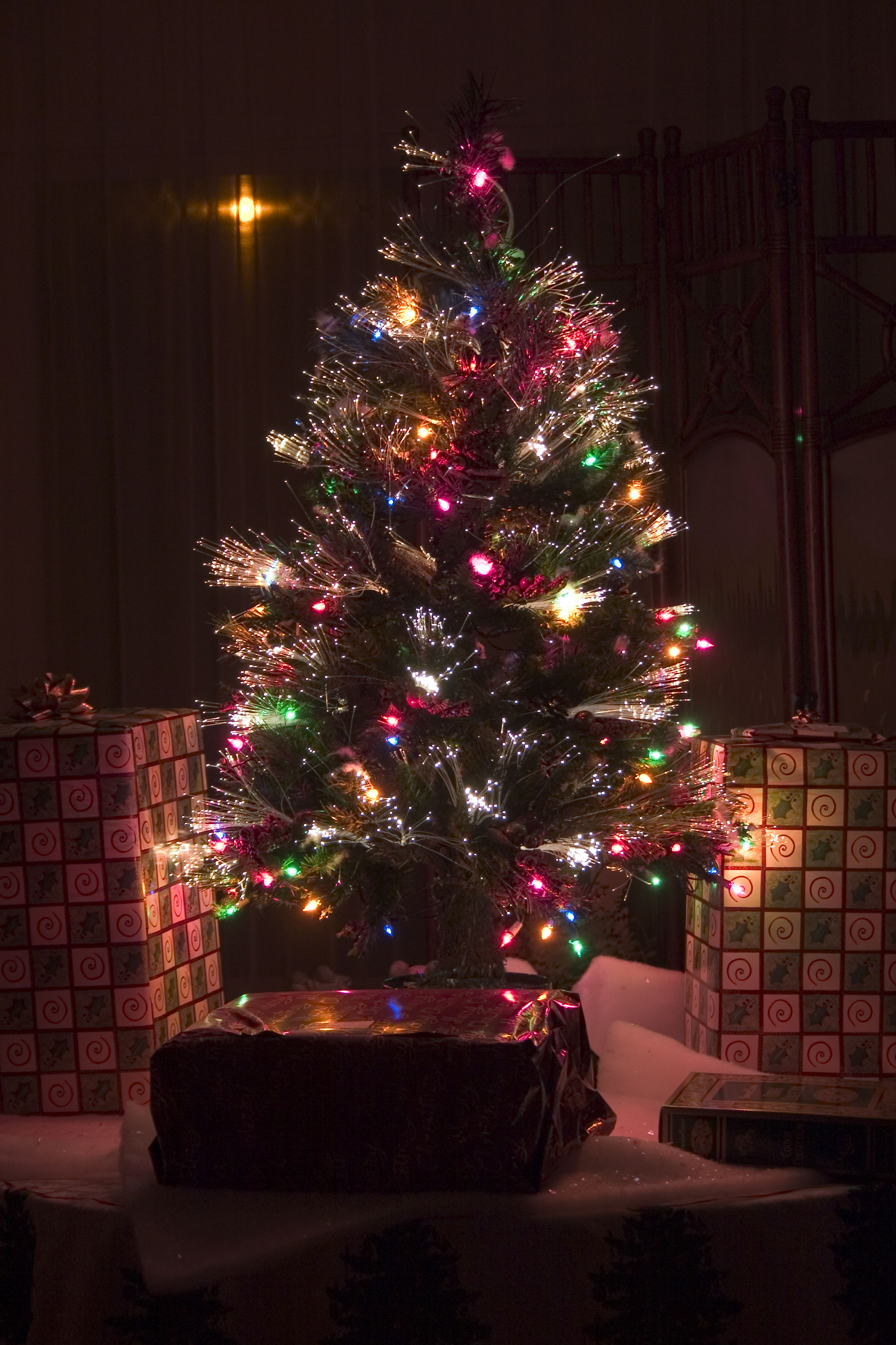 An artificial Christmas tree with both conventional and fiber-optic lights. Photo by Sean O'Flaherty aka Seano1